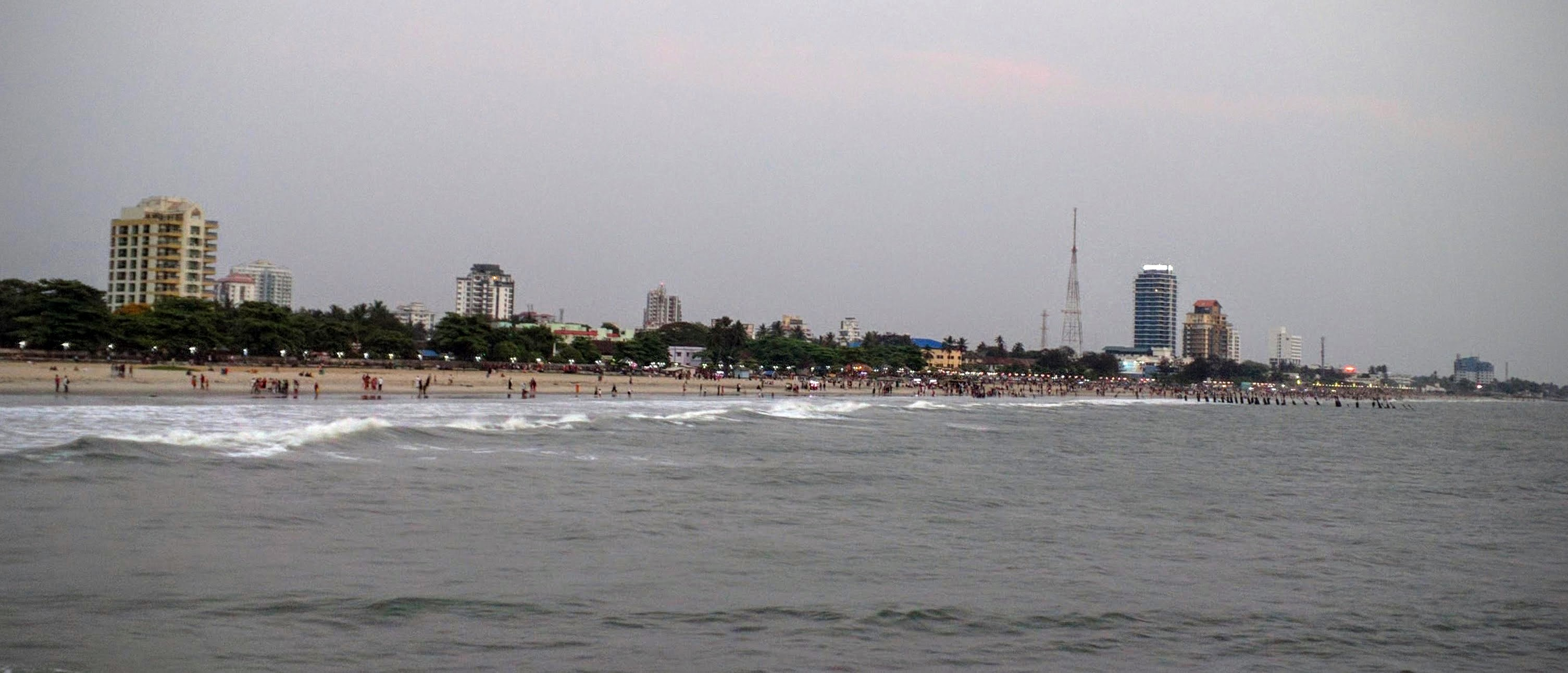 Coastline of Kozhikode